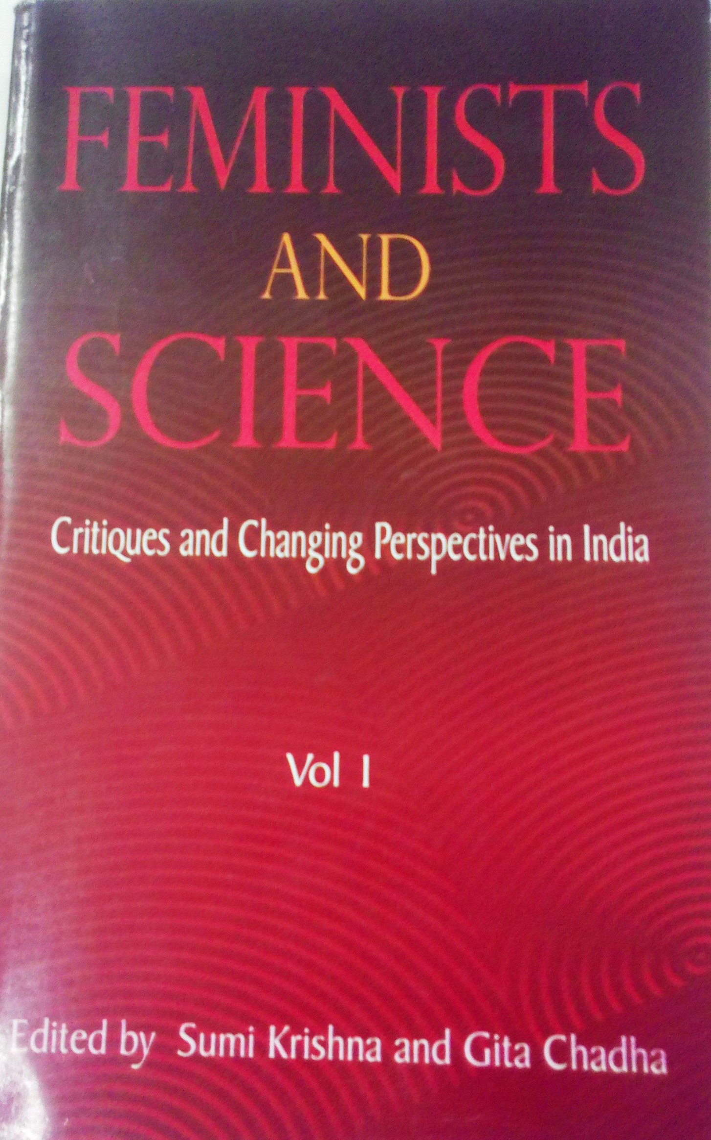 Exif_JPEG_420